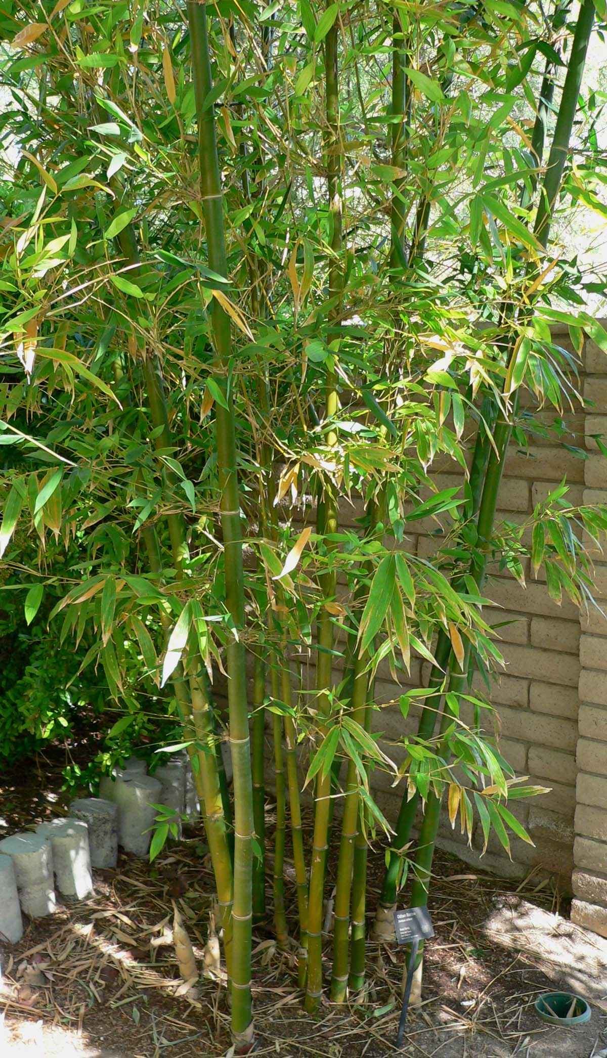 Photo of Bambusa oldhamii at the Springs Preserve garden in Las Vegas, Nevada